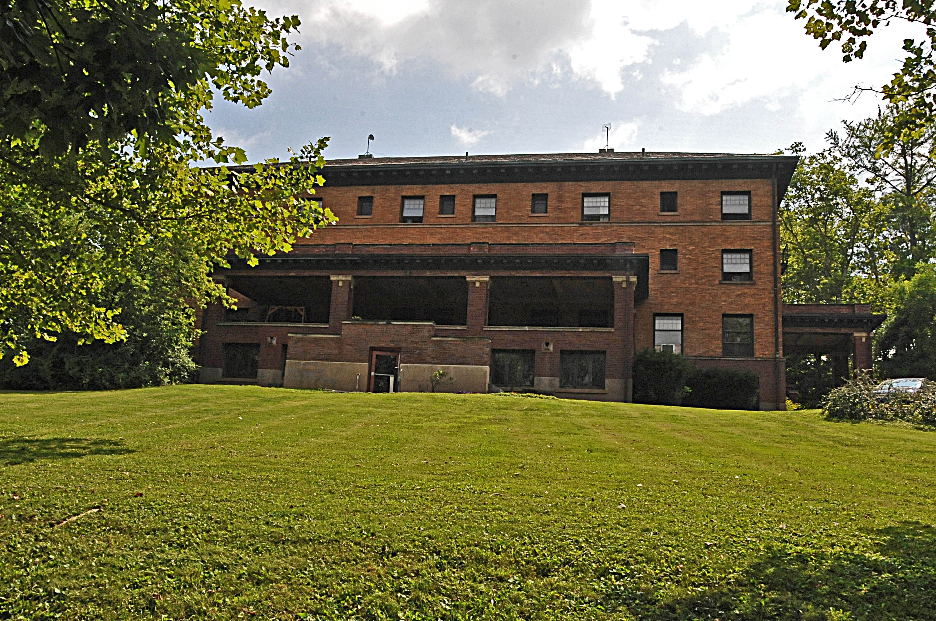 BUILT IN 1910 TO INITIALLY PROVIDE ROOM AND BOARD FOR ENGINEERS WHO WORKED FOR L.L. NUNN AND WERE ATTENDING CORNELL UNIVERSITY